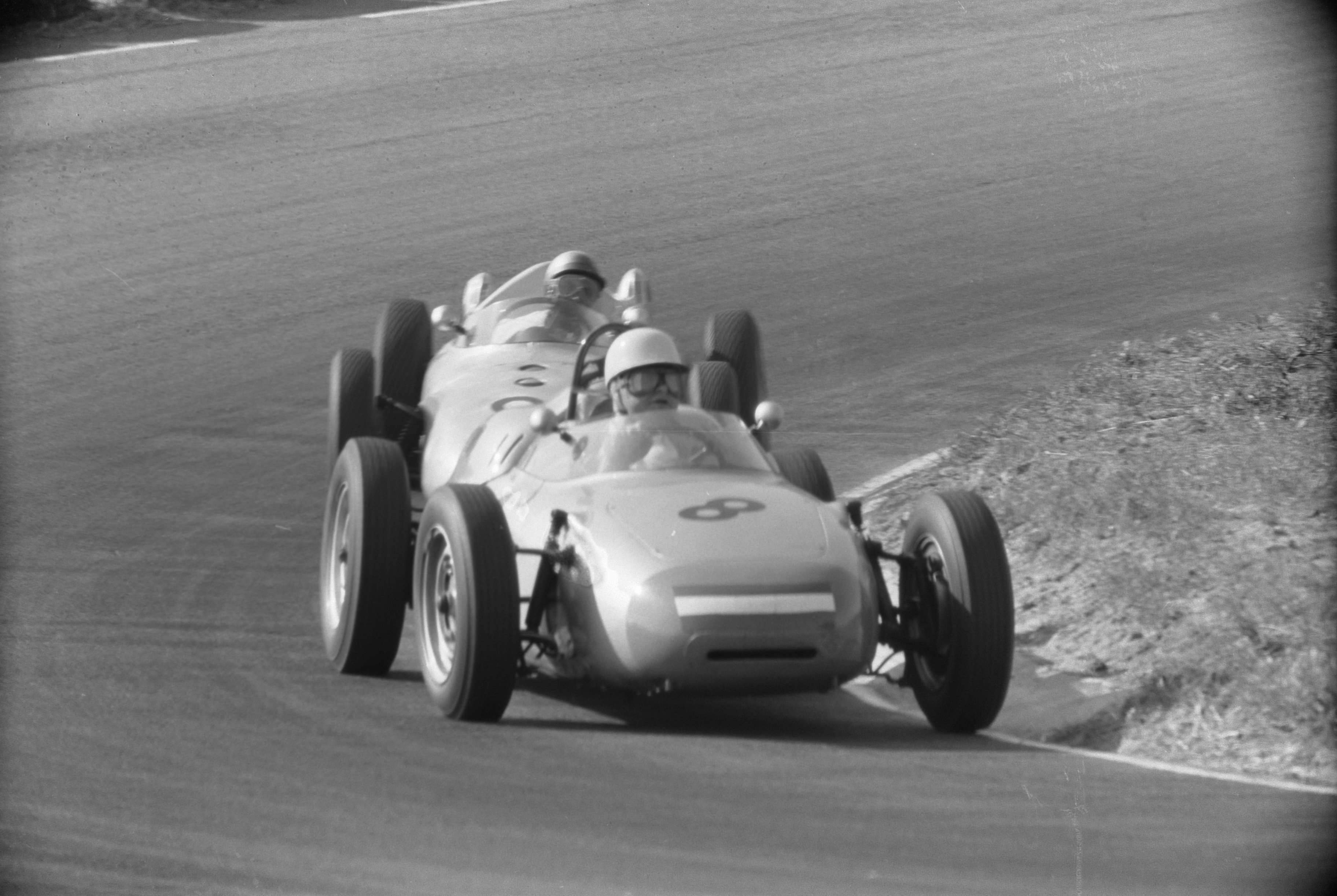 Ecurie Maarsbergen privateer Porche 718 cars at the 1961 Dutch Grand Prix. Team owner Carel Godin de Beaufort's car is leading, being chased by team mate Hans Hermann.